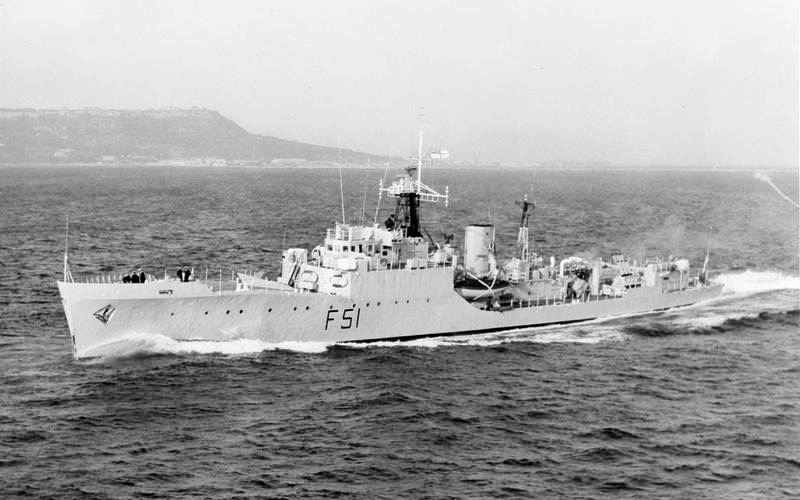 Blackwood class Frigate, HMS Grafton, 1954 (IWM HU129845)